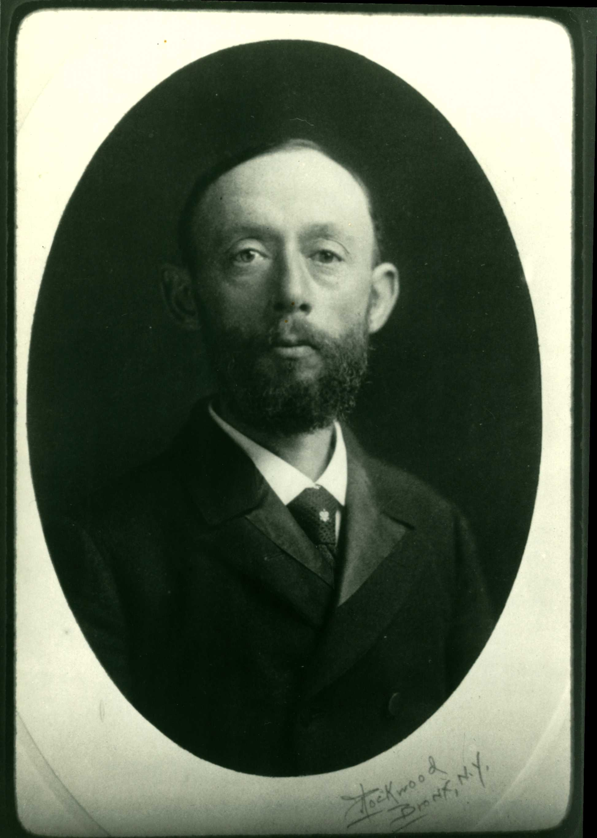 Portrait of Nathaniel Lord Britton in Rockwood, Bronx New York